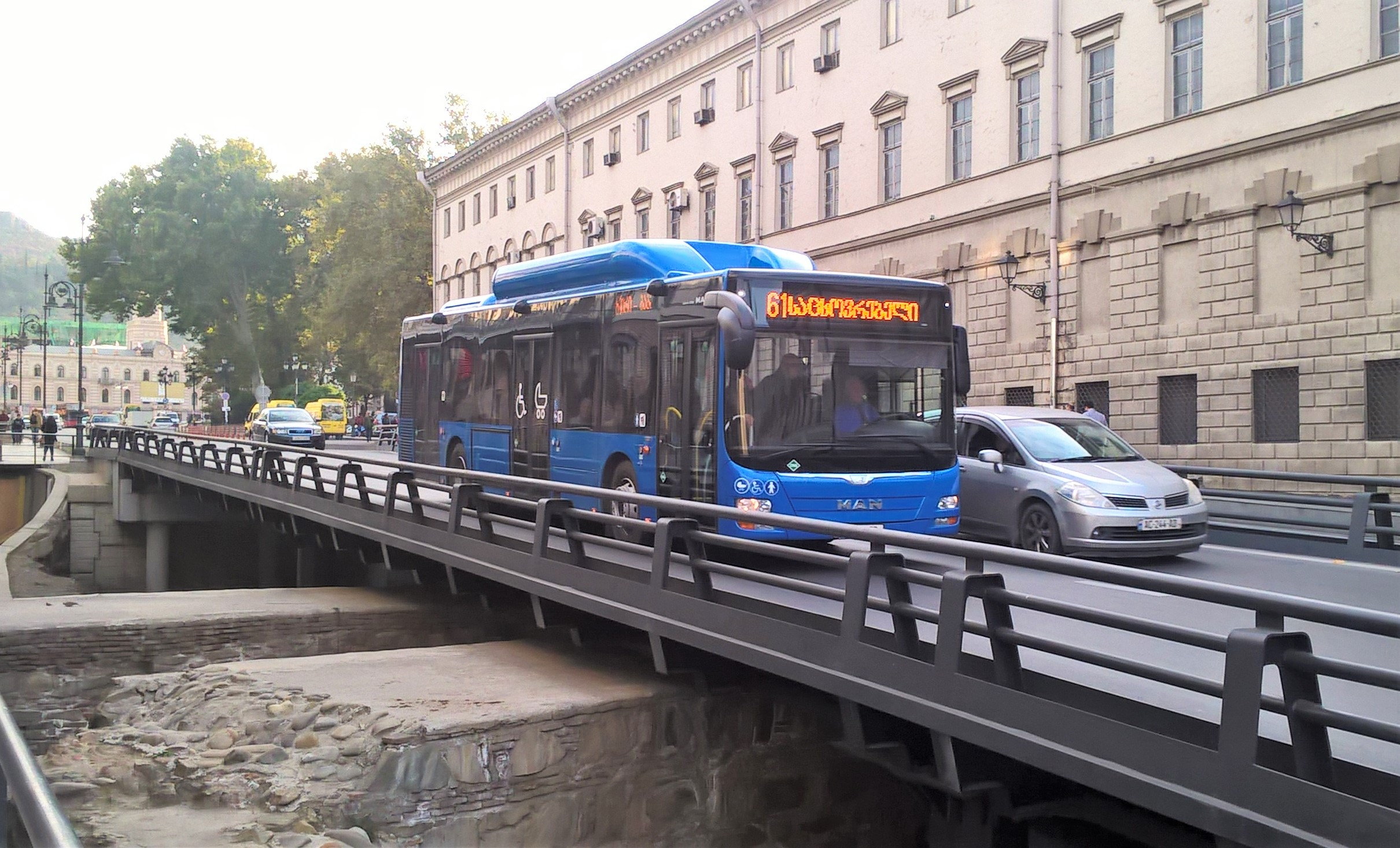 Tbilisi's new city bus - MAN Lion's city A21 CNG